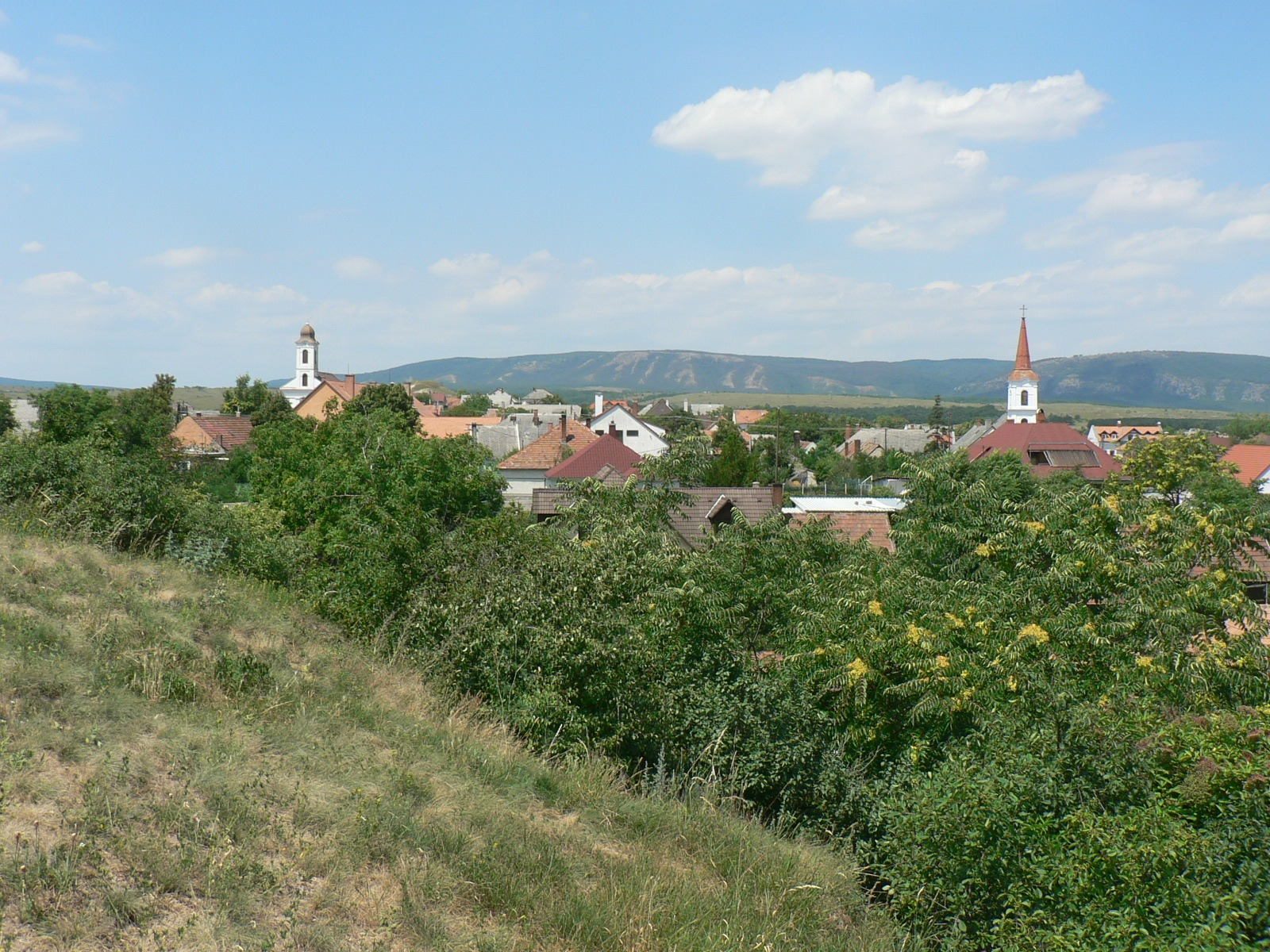 Öskü látképe a kerektemplom felől